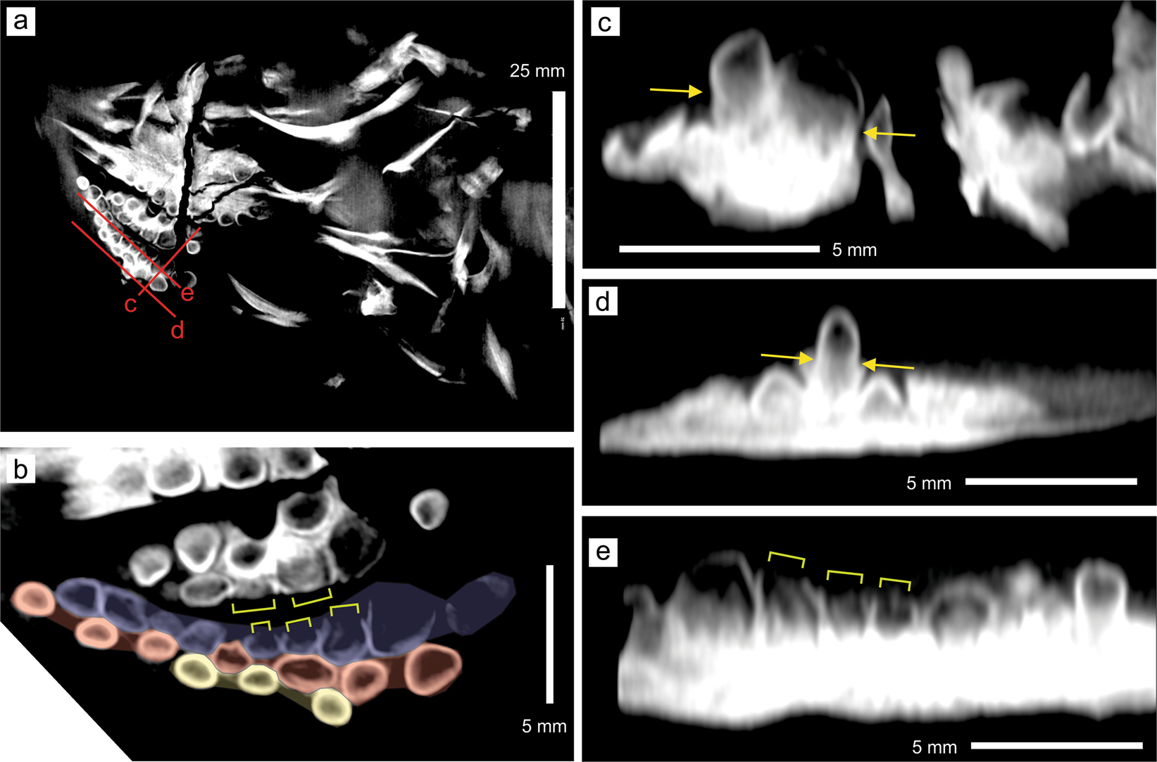 Sectional images of the 3D volume based on the CT images. (a) Section through the head region approximately parallel to the bedding plane. (b) A close-up view of the right dentary (below) and maxillary (middle to above) dentition in a, with a part of the left dentary teeth along the top margin. Dentary tooth rows are colored, with the labial row in blue, middle row in red, and lingual row in yellow. (c) A cross-section through the red line labeled c in a, nearly parallel to the longitudinal direction of the dentary teeth. (d) A cross-section through the red line labeled d in a, nearly parallel to the longitudinal direction of the dentary teeth. (e) A cross-section through the red line labeled e in a, nearly parallel to the longitudinal direction of the dentary teeth. Yellow allows point to the constriction between the crown and root. Yellow square brackets indicate the parts of tooth crowns without the enamel due to tooth wear.